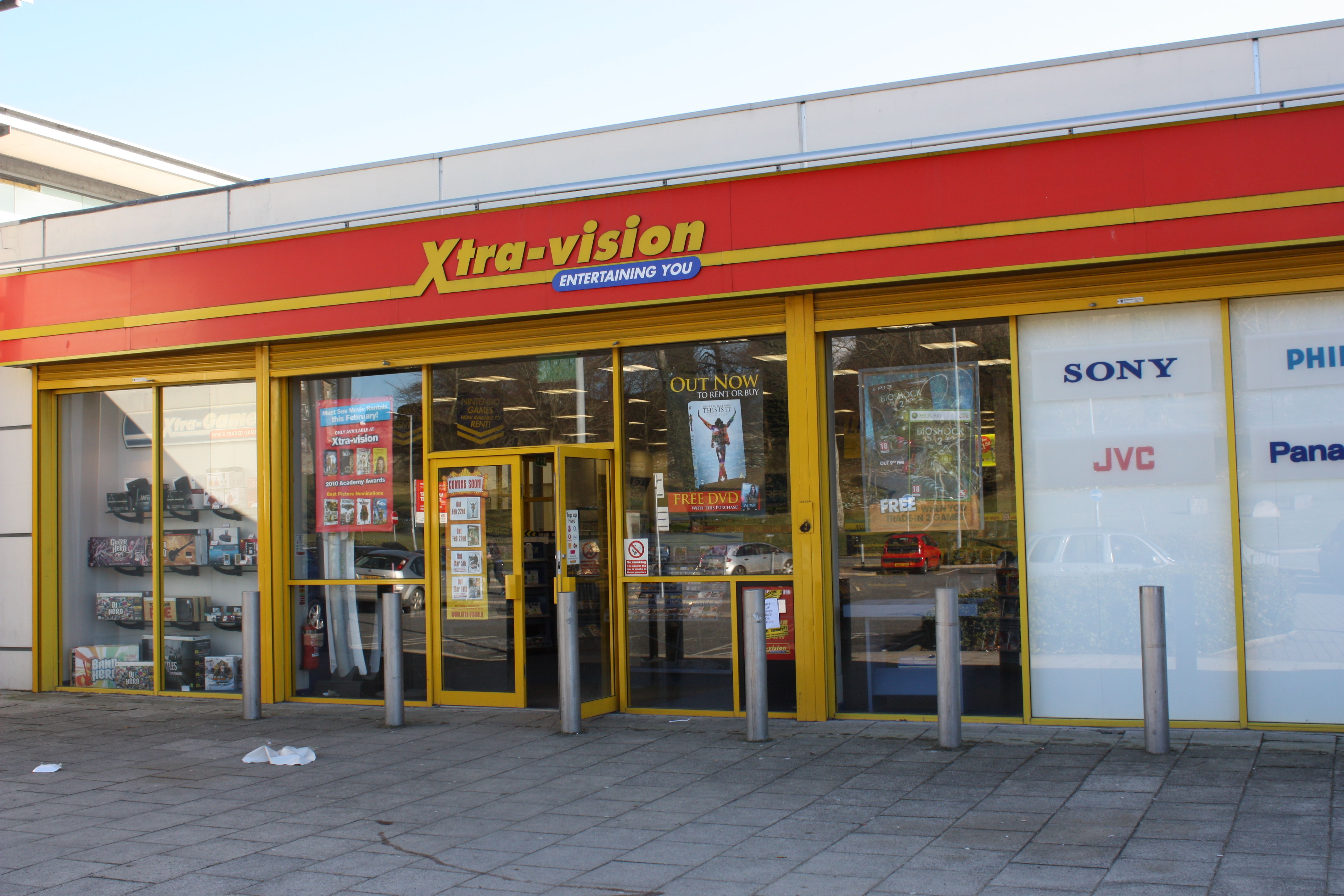 Xtra-Vision store, Grove Shopping Centre, Downpatrick, County Down, Northern Ireland, February 2010